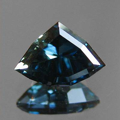 Sapphire originating from Rock Creek in Montana